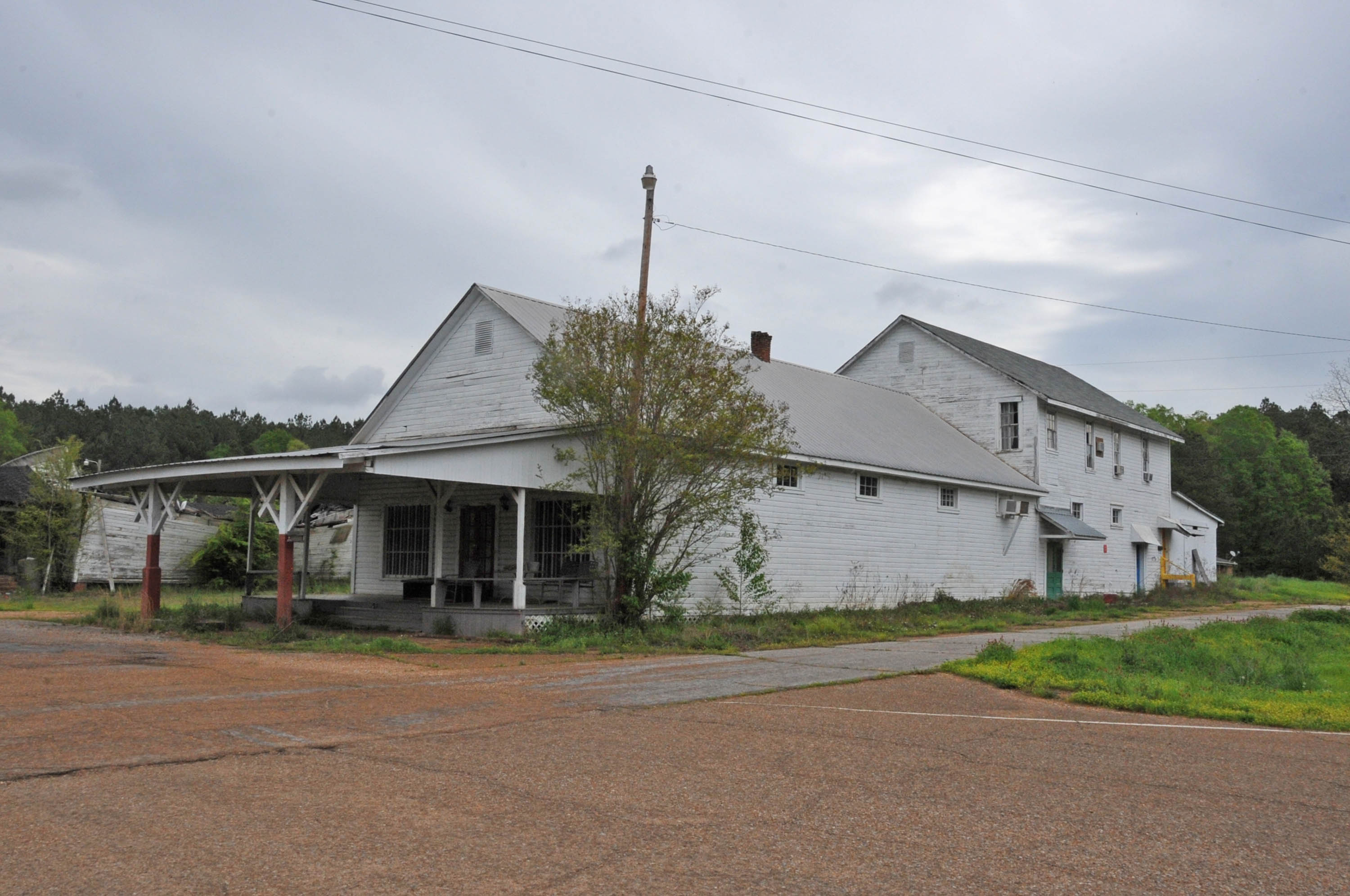 Built in 1913; The rear portion was a bank, post office, and Doctor W.F. Rogers' Office (he built the complex)